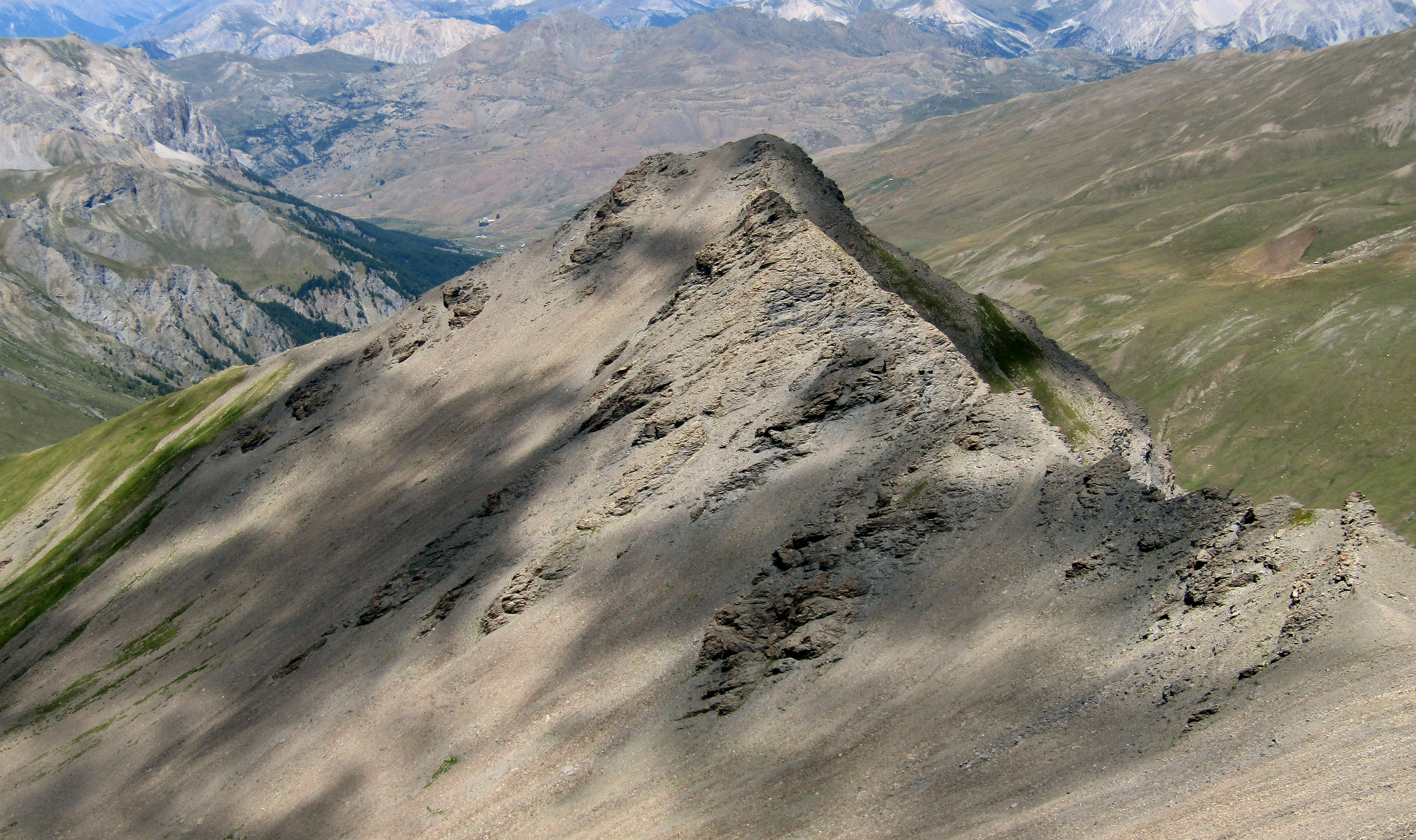 The Pic du Lombard (Cottian Alps, France) as seen from the Petit Rochebrune